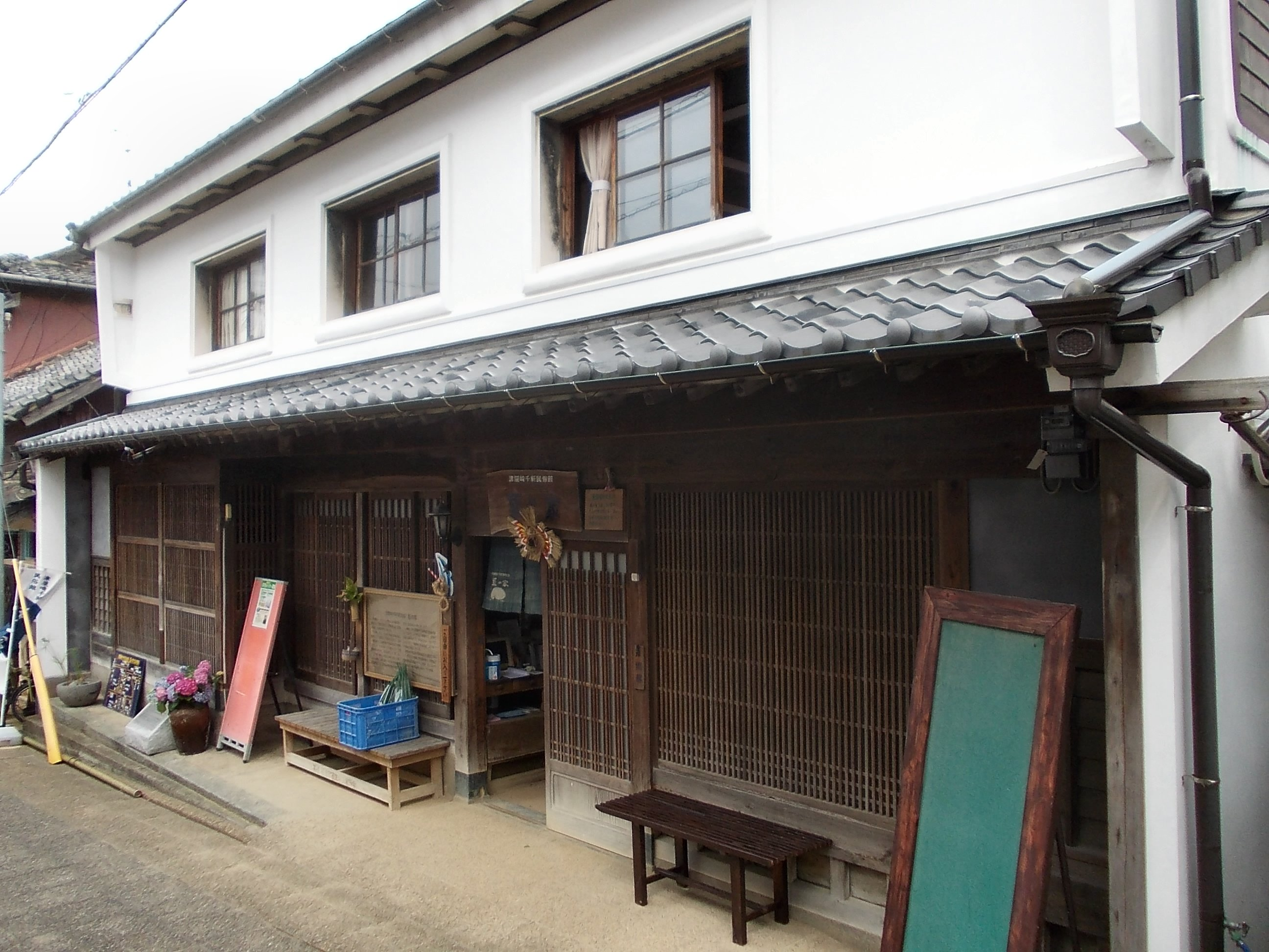 The Tsuyazaki-sengen Ai-no-ie folk museum (津屋崎千軒民俗館藍の家 Tsuyazaki-sengen Minzoku-kan Ai-no-ie) was built in 1901 by Zenbei Agatsuma, the fifth owner of the former dye shop. There is a history of more than 100 years, and it still remains the typical Machiya building at that time.